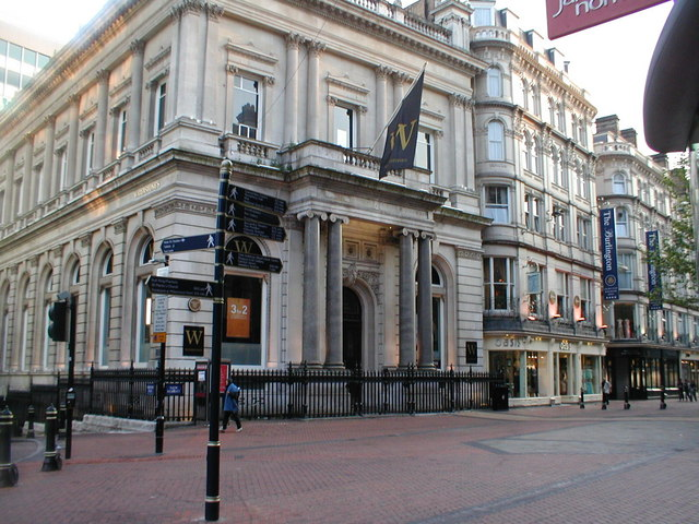 Waterstones bookshop New St. This shop used to be the regional HQ of the Midland Bank (HSBC). It's simply gorgous inside.